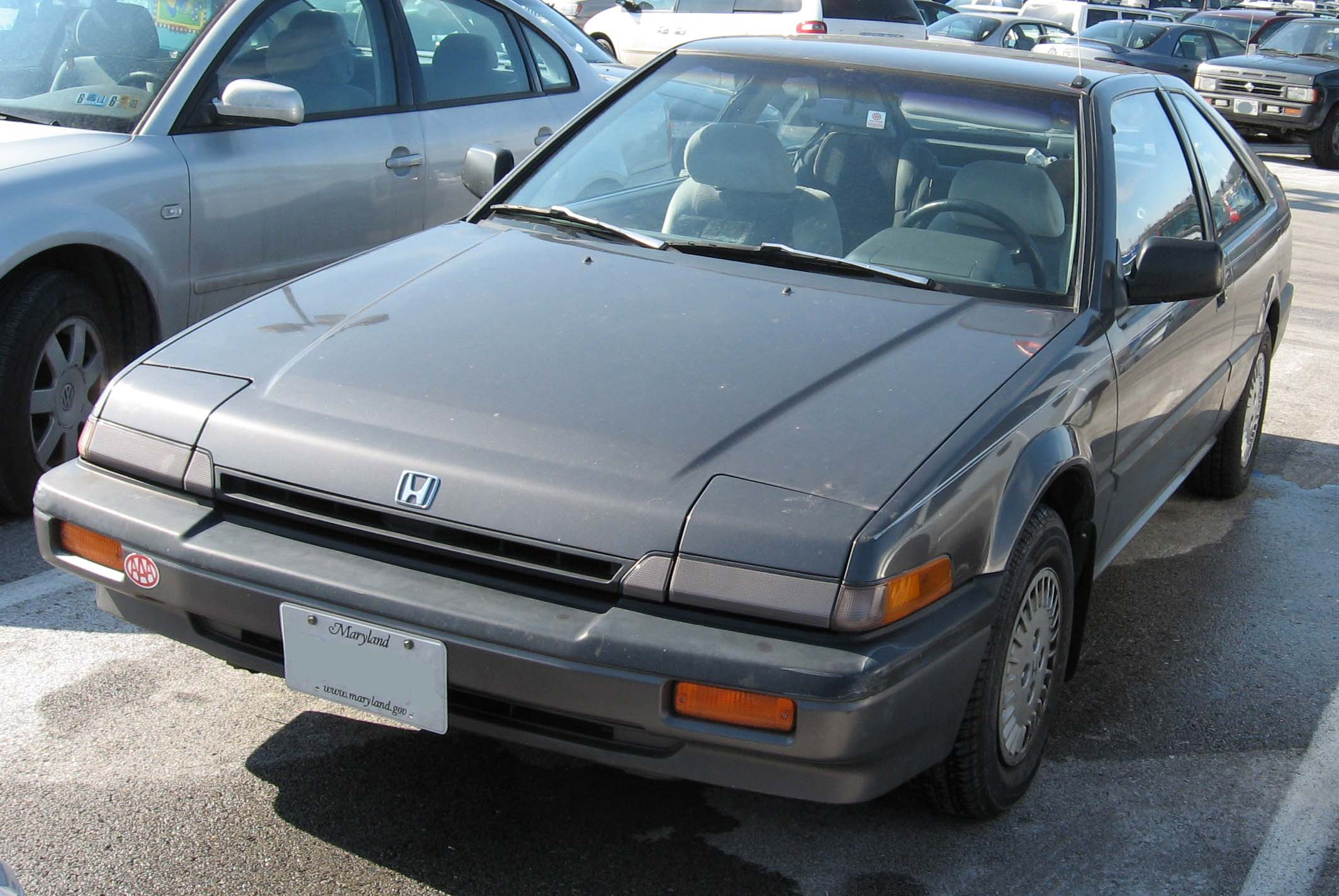 1986-1989 Honda Accord hatchback photographed in USA.